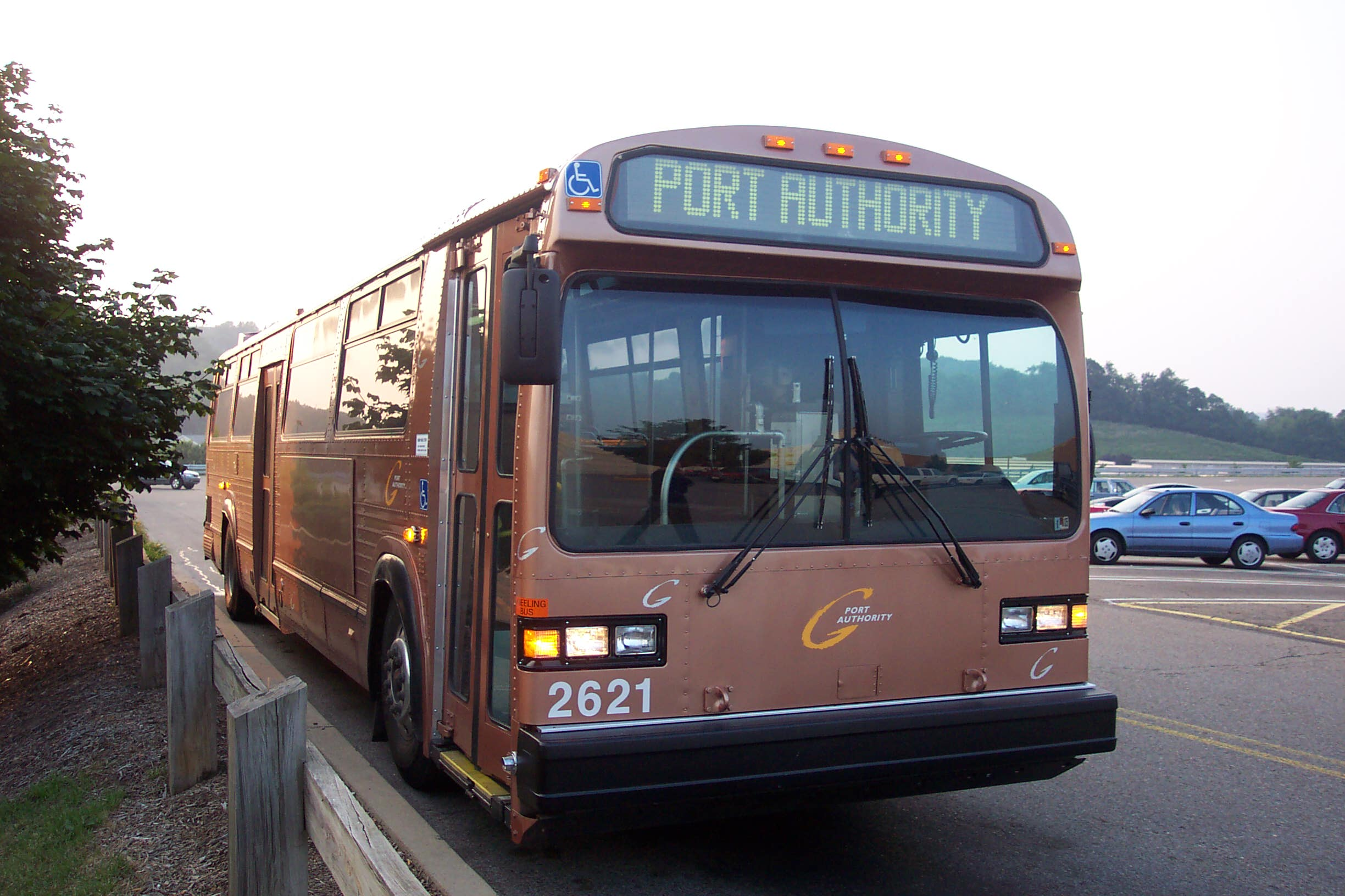 1996 NovaBUS Classic, Port Authority of Allegheny (Pittsburgh, PA) Photo by, M. Witkowski